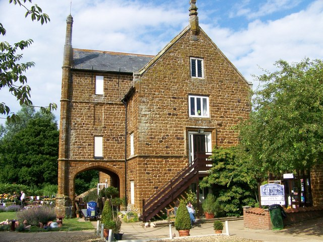 Caley Mill - home of Norfolk Lavender, Heacham, Norfolk The Caley Mill was built in 1837 from local carr stone and was used until 1923. The upper floors were used for grain storage, the grinding equipment was on the first floor and the ground floor was where the flour was stored. The ground floor now houses the gift shop and the former miller's cottage is the tea room.